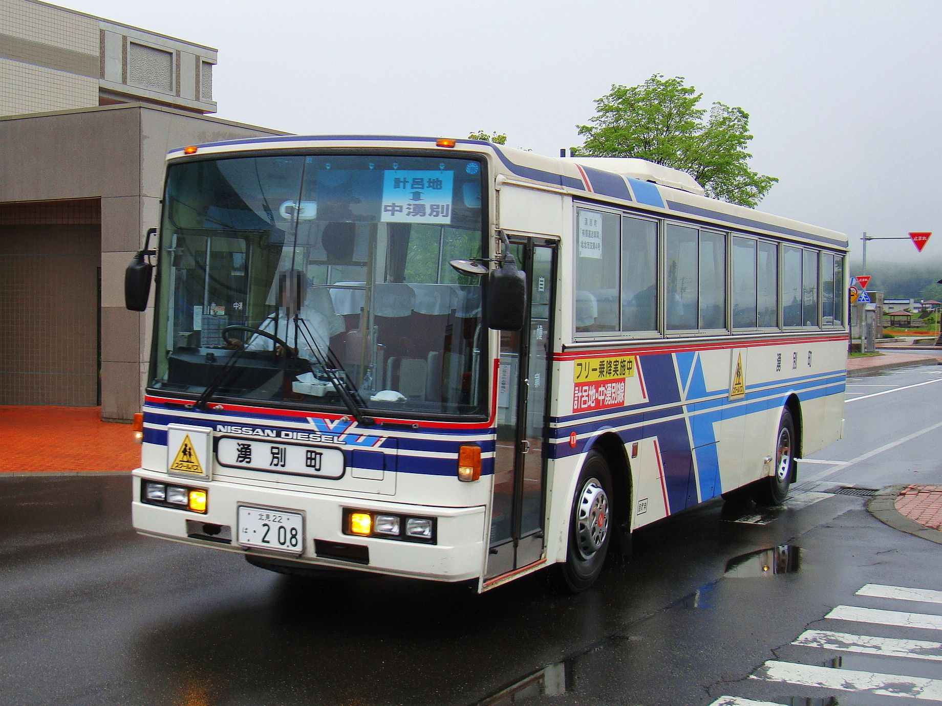 Yūbetsu town line